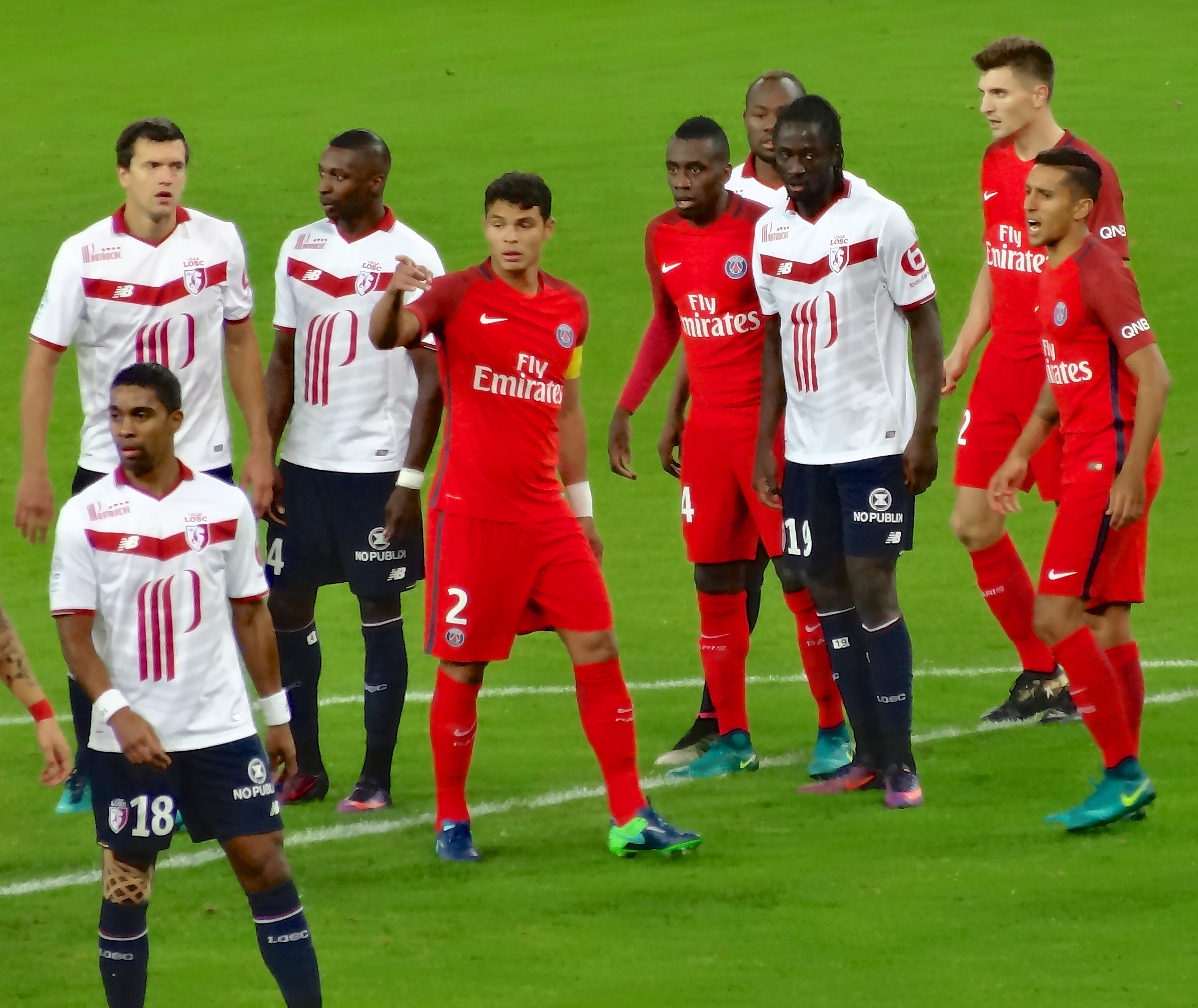 LOSC PSG 2016